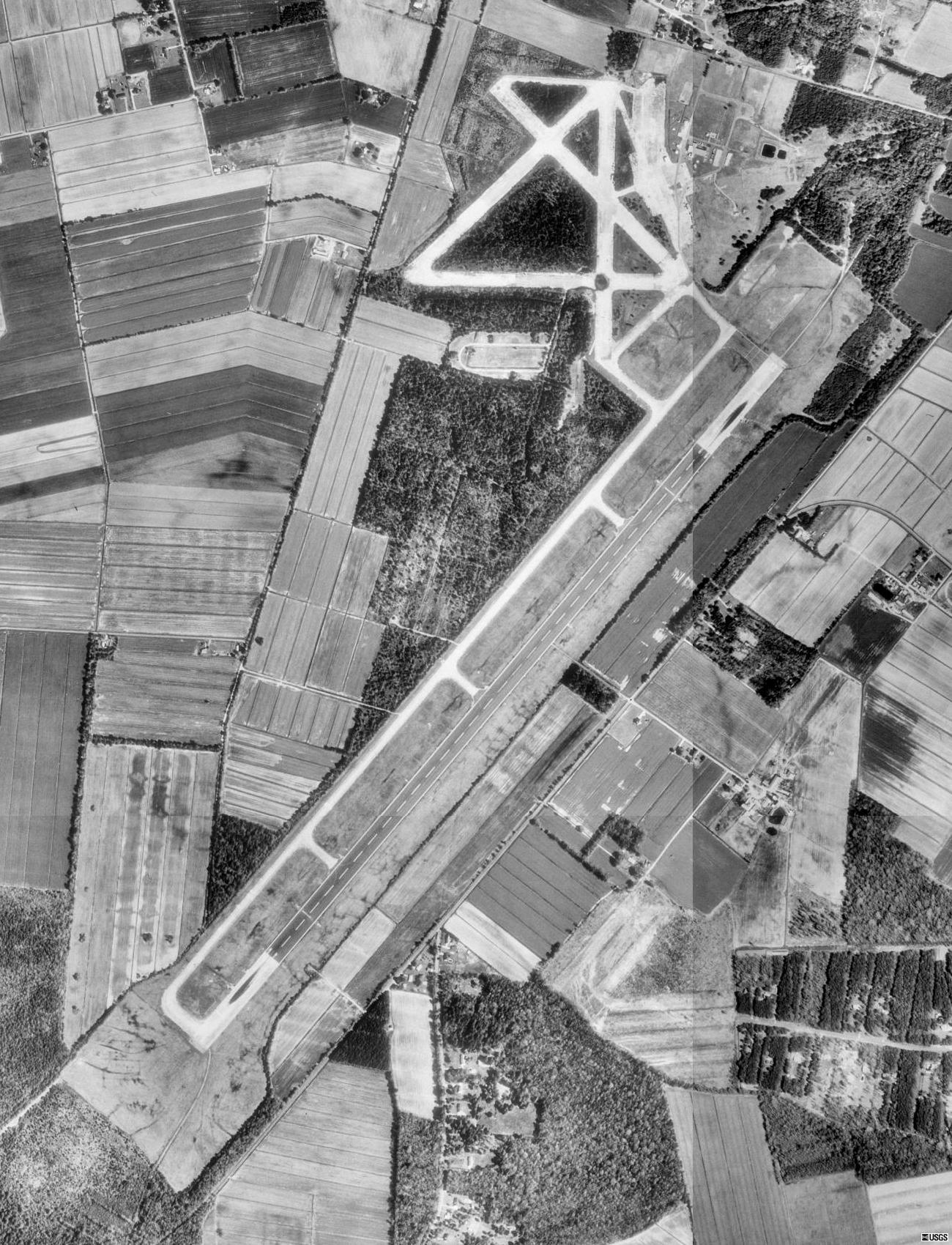 Aerial image of Naval Auxiliary Landing Field Fentress in Virginia, United States.